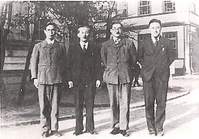 They are teachers of physical education division, Tokyo Higher Normal School (Now University of Tsukuba). ASAKAWA Masaichi, NINOMIYA Bun'emon, NOGUCHI Genzaburo and IMAMURA Yoshio in order from the left side of the photo.